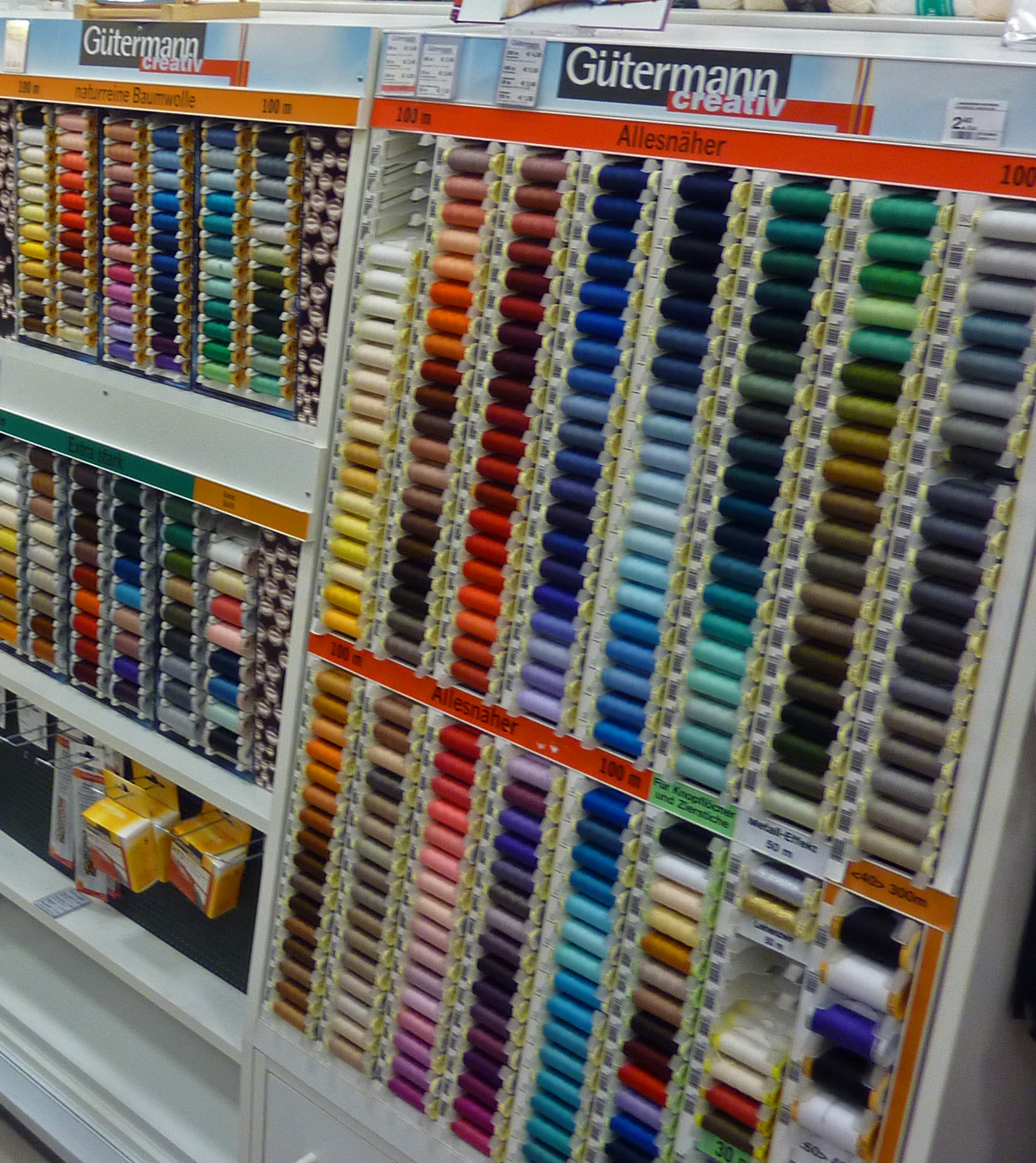 Gütermann sewing thread in a Freiburg store